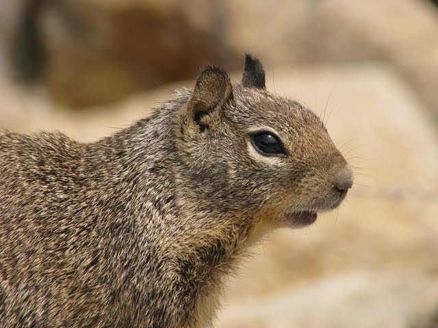 California ground squirrel in Point Lobos State Reserve